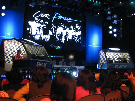 2006 SKY Proleague